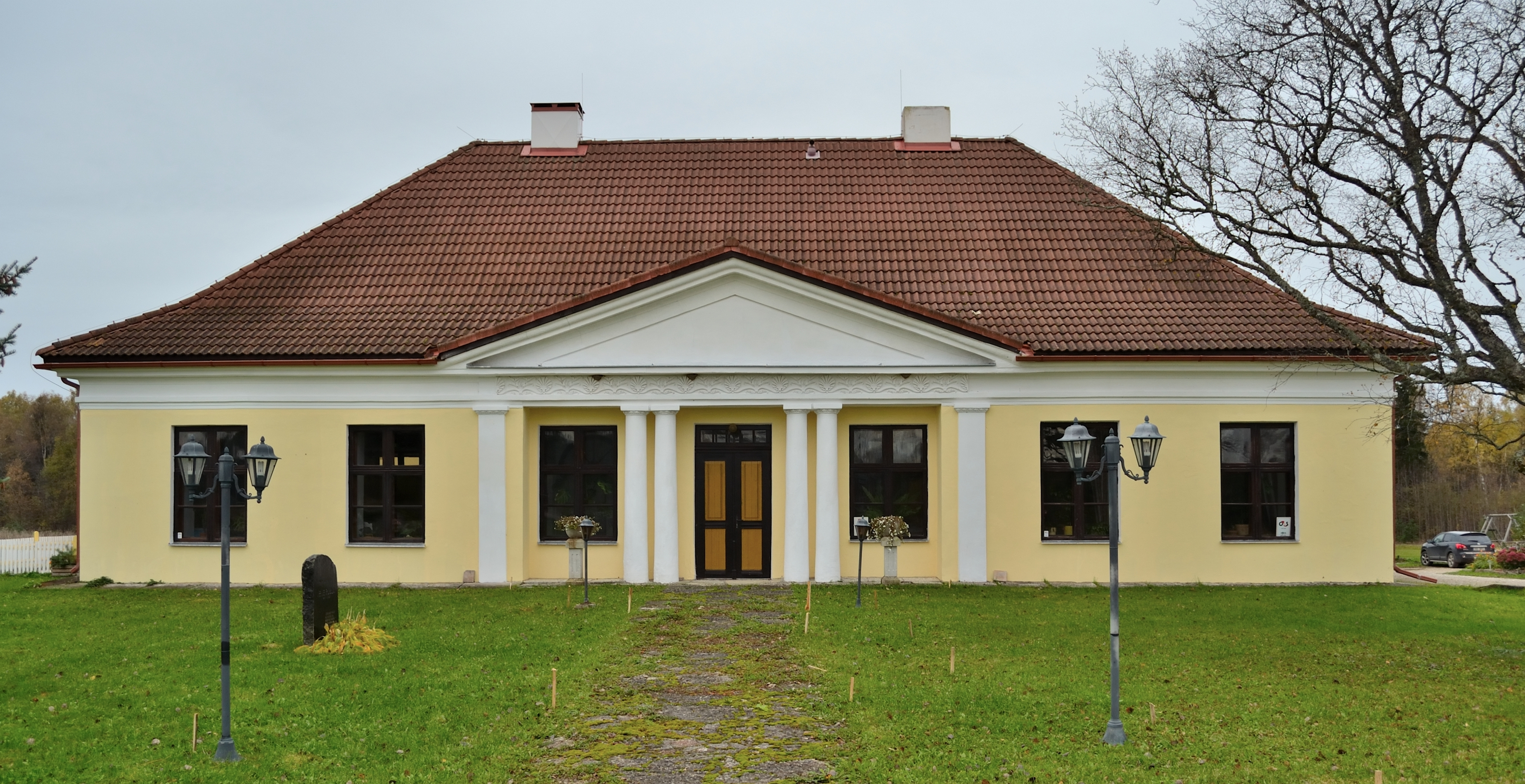 Main building of the former Ruunavere coaching inn